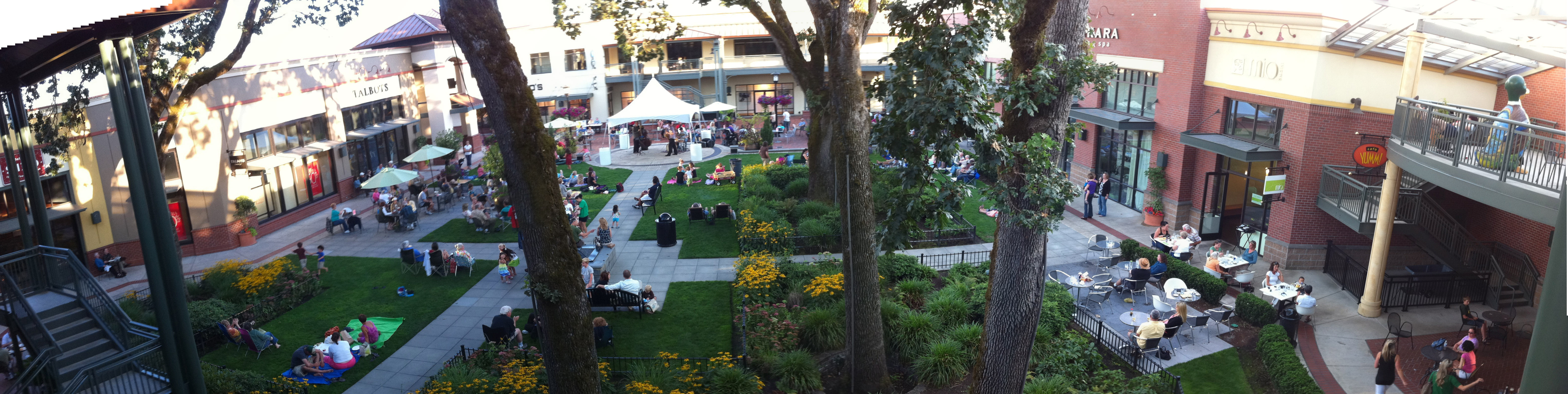 Panorama ofOakway Center in Eugene, Oregon